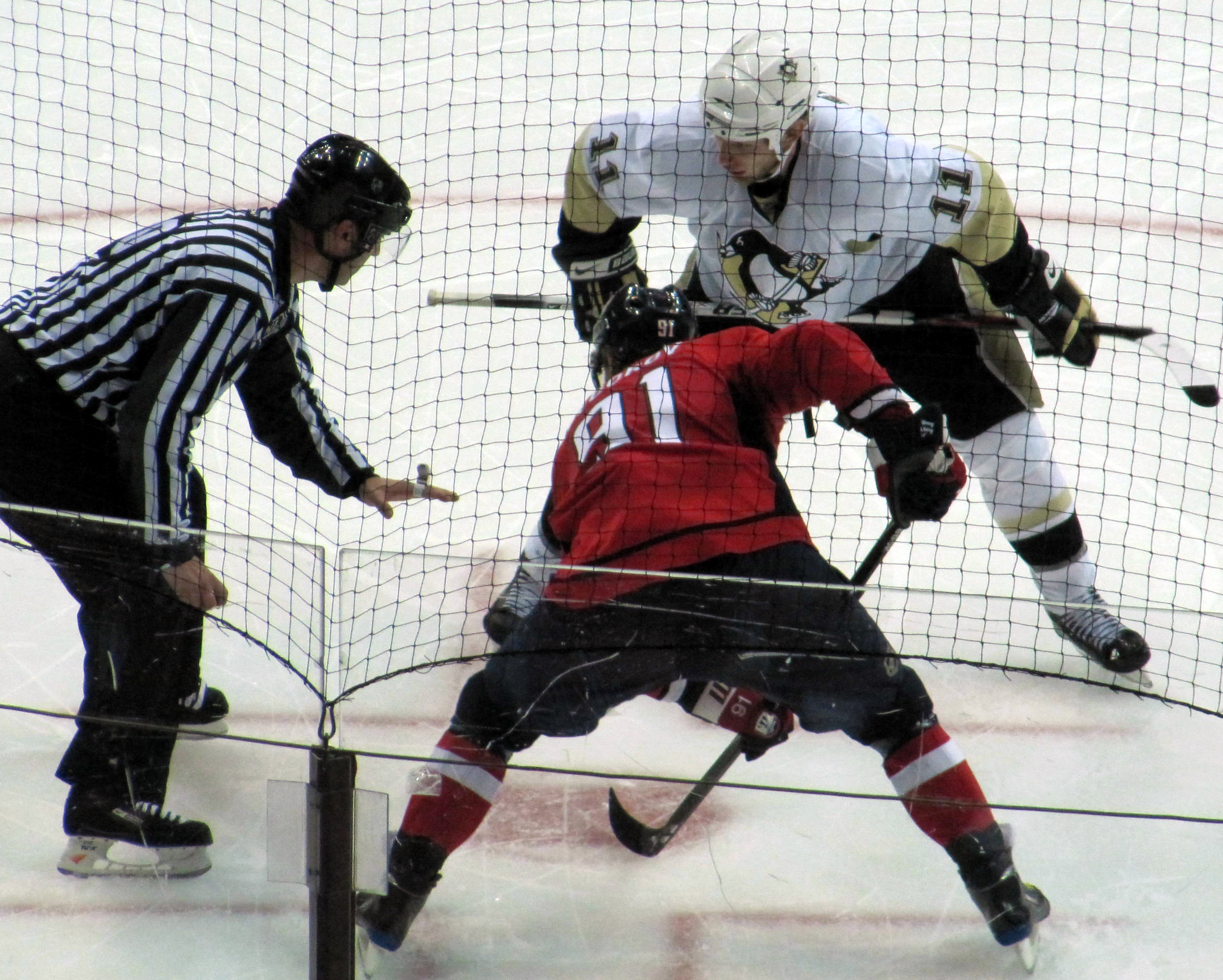 Pittsburgh Penguins centre Jordan Staal faces off against Washington Capitals centre Sergei Fedorov during the 2009 Stanley Cup playoffs.